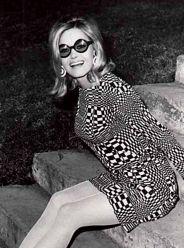 Sharon Farrell in The Man from U.N.C.L.E. (1967)